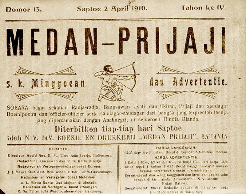 Front page of the 2 April 1910 edition of Medan Prijaji, a Malay-language newspaper